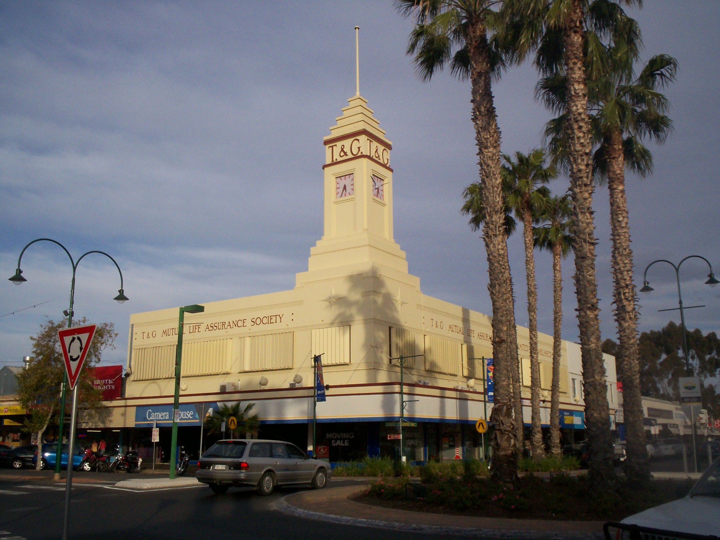 T&G Building, Mildura, Victoria Licensing Category:Images of Victoria